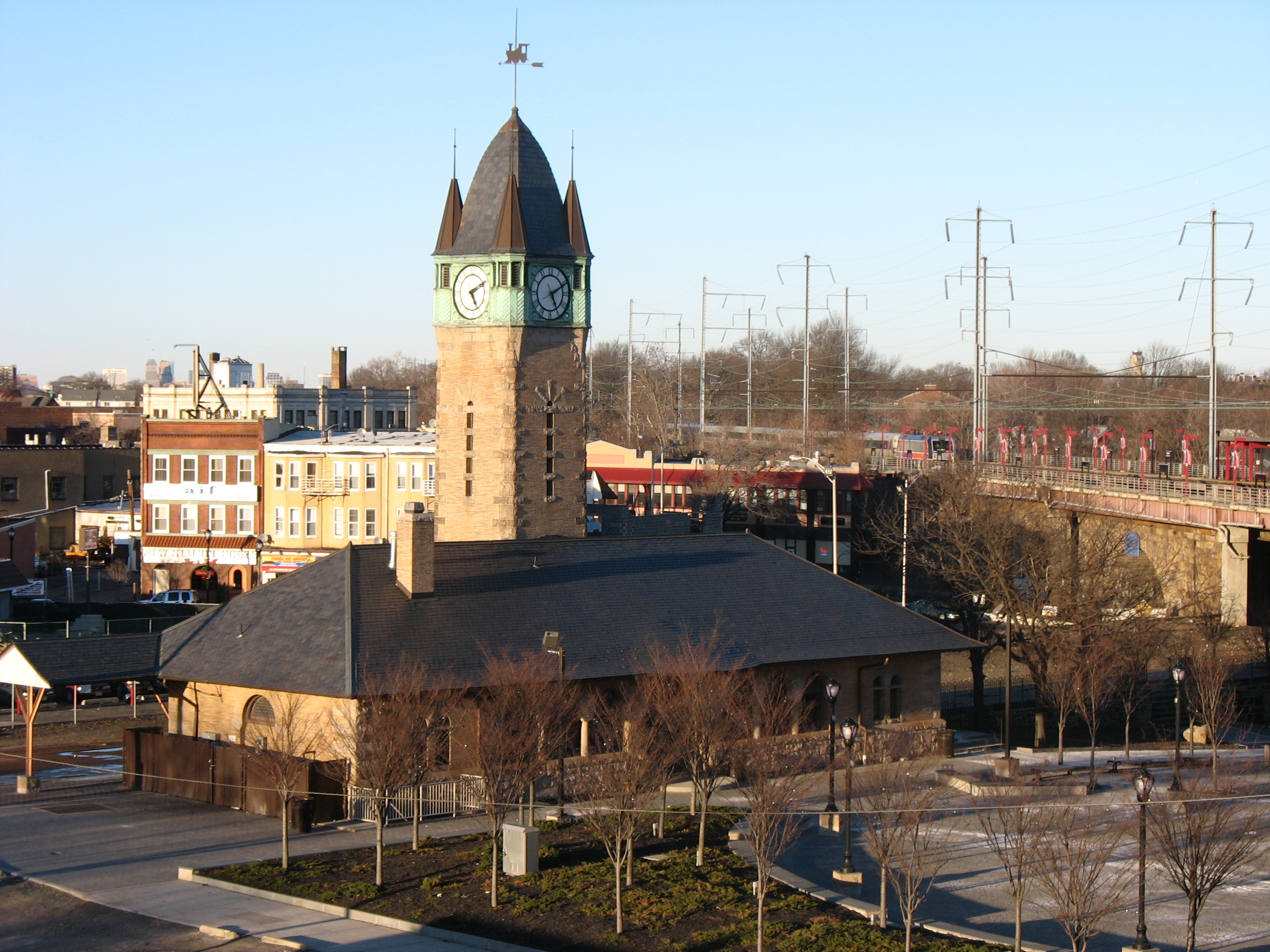 Looking northeast at Elizabeth Station. In the foreground is the historic Central Railroad of New Jersey station and clock tower. In the background is the current New Jersey Transit station.